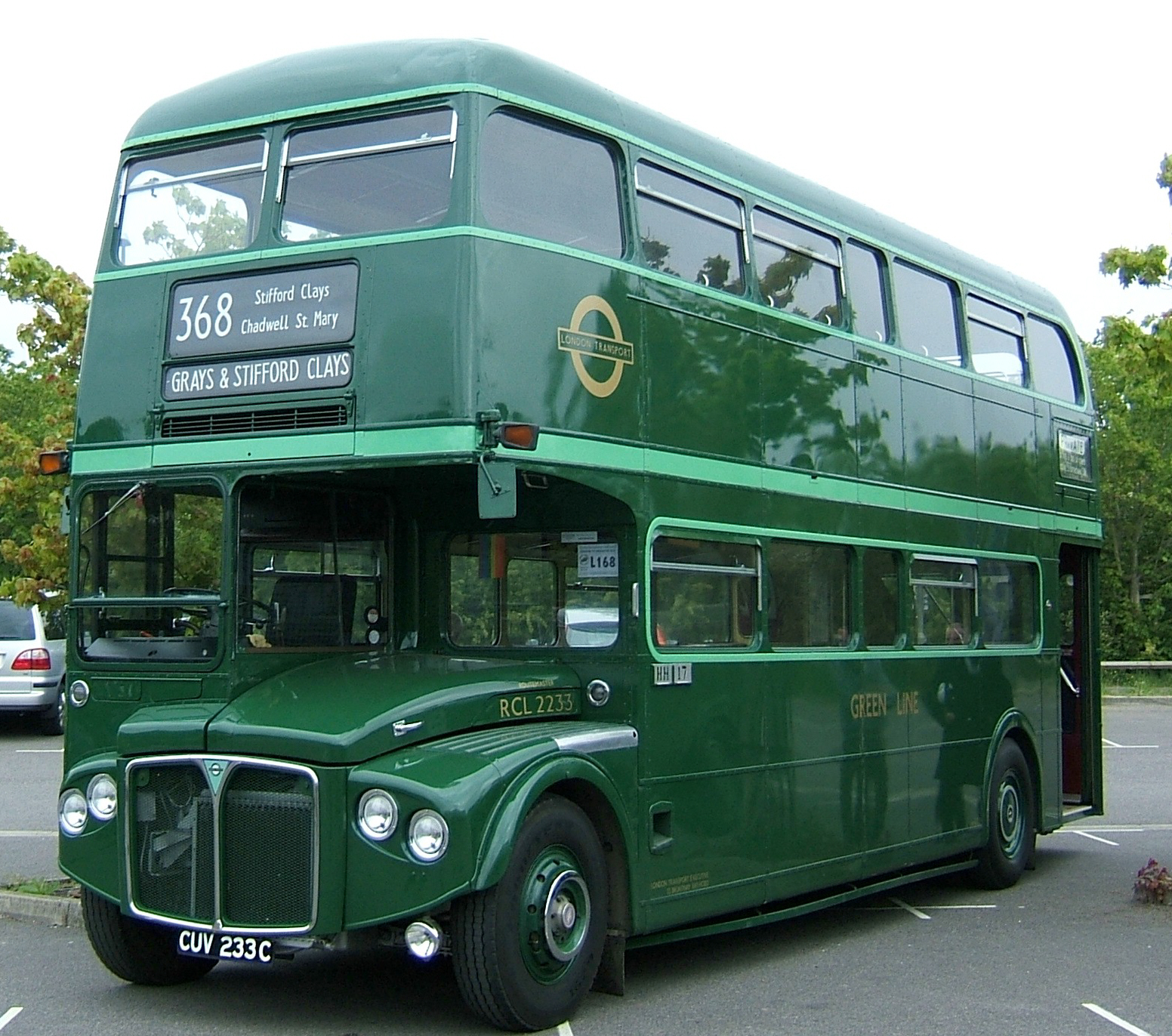 Routemaster coach RCL2233. The Historic Commercial Vehicles Society's London-Brighton run stopped off at the Broadfield Stadium.